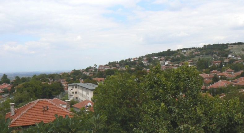 View towards village Brestovitsa, Bulgaria